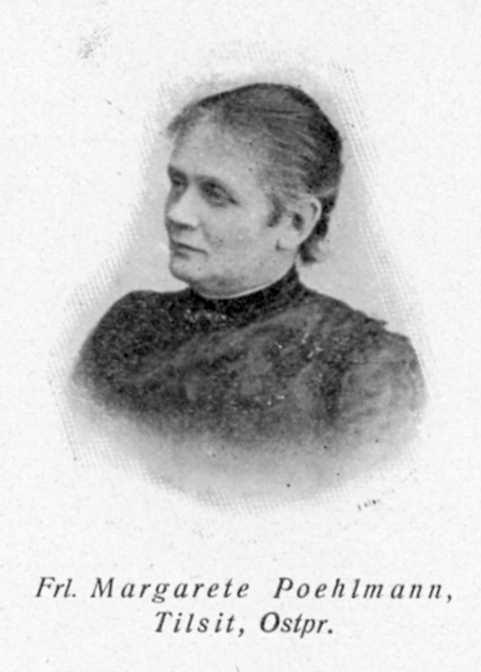 Black-and-white photograph of German educator, womens' rights activist and politician Margarete Poehlmann